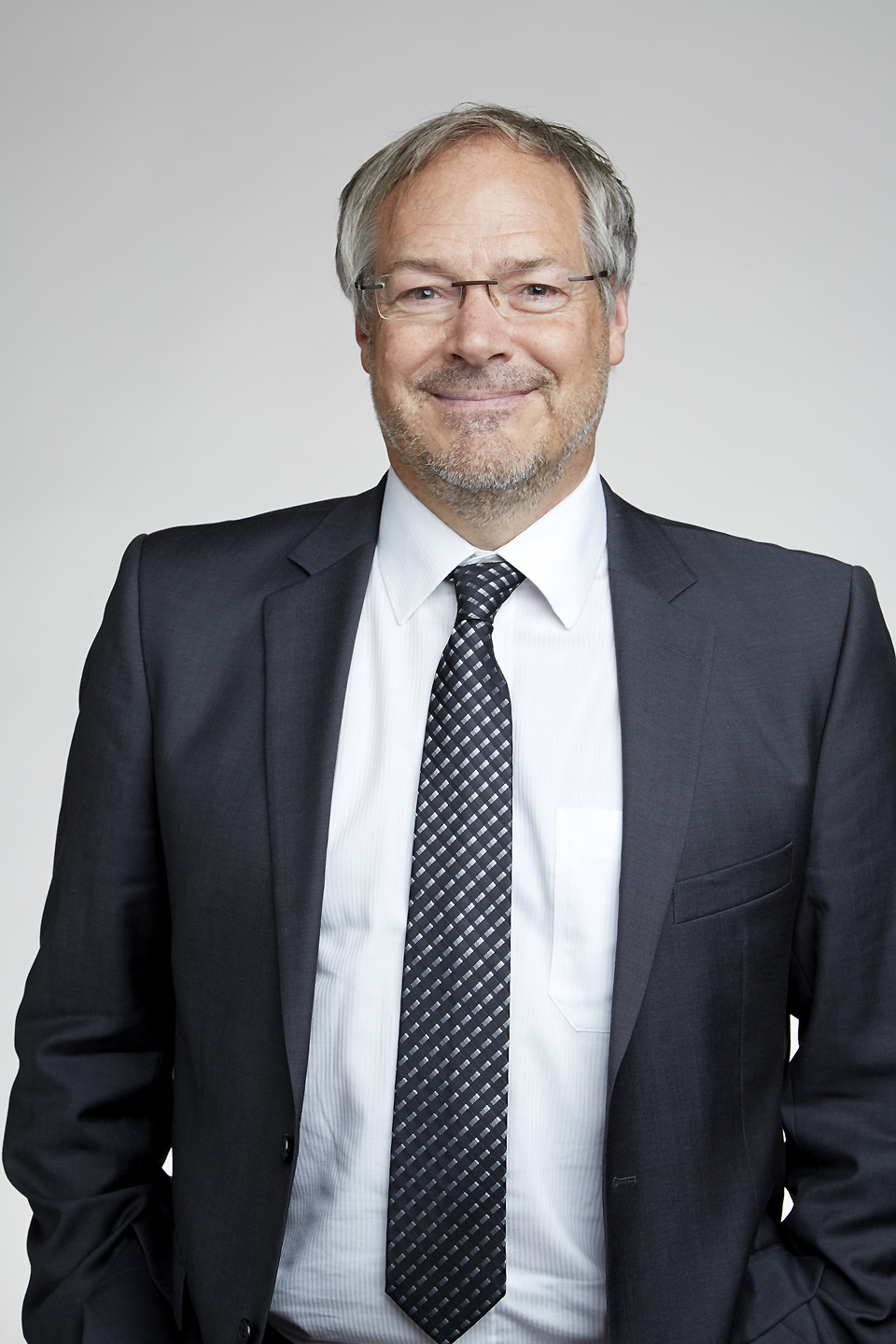 Theodore Gordon Shepherd FRS[5] (born 6 August 1958) is the Grantham Professor of Climate Science at the University of Reading. Attribution: The Royal Society